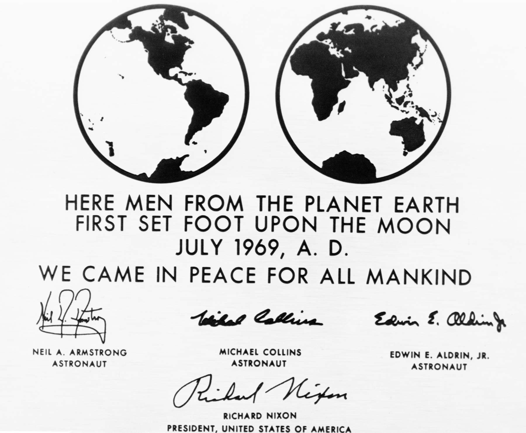 Closeup view of the plaque which the Apollo 11 astronauts will leave behind on the moon is commemoration of the historic event. The plaque is made of stainless steel measuring nine by seven and five-eighths inches, and one-sixteenth inch thick. The plaque will be attached to the ladder on the landing gear strut on the descent stage of the Apollo 11 Lunar Module. Covering the plaque during flight will be a thin sheet of stainless steel which will be removed on the lunar surface. Image ID: S69-39334